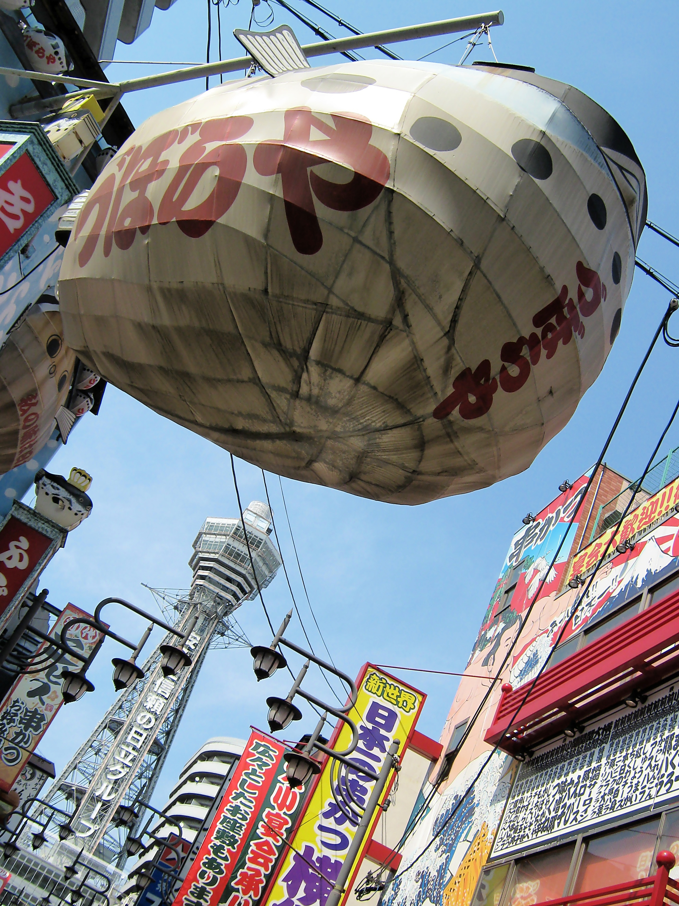 In Apr/May 2009, I took 15 days to walk all the way from Tokyo to Kyoto, roughly following the 546km long, ancient highway, the Nakasendo, alone. This picture was taken during the free week I had in Japan after the walk. Read about my preparations and my time in Japan at .